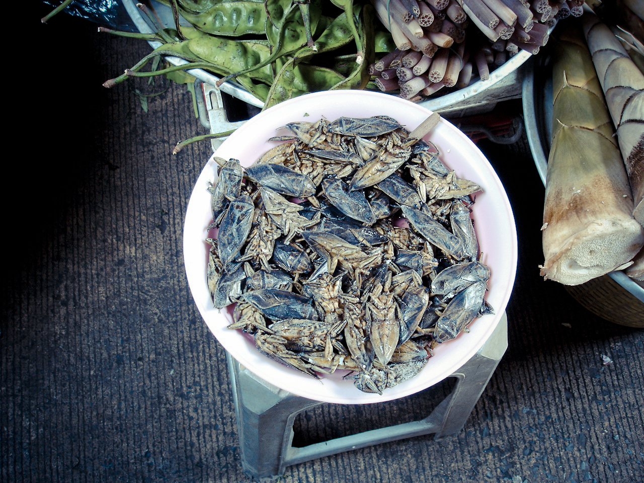 Lethocerus indicus (Thai: maeng da; Thai script: แมงดา) as food in Lopburi, Thailand